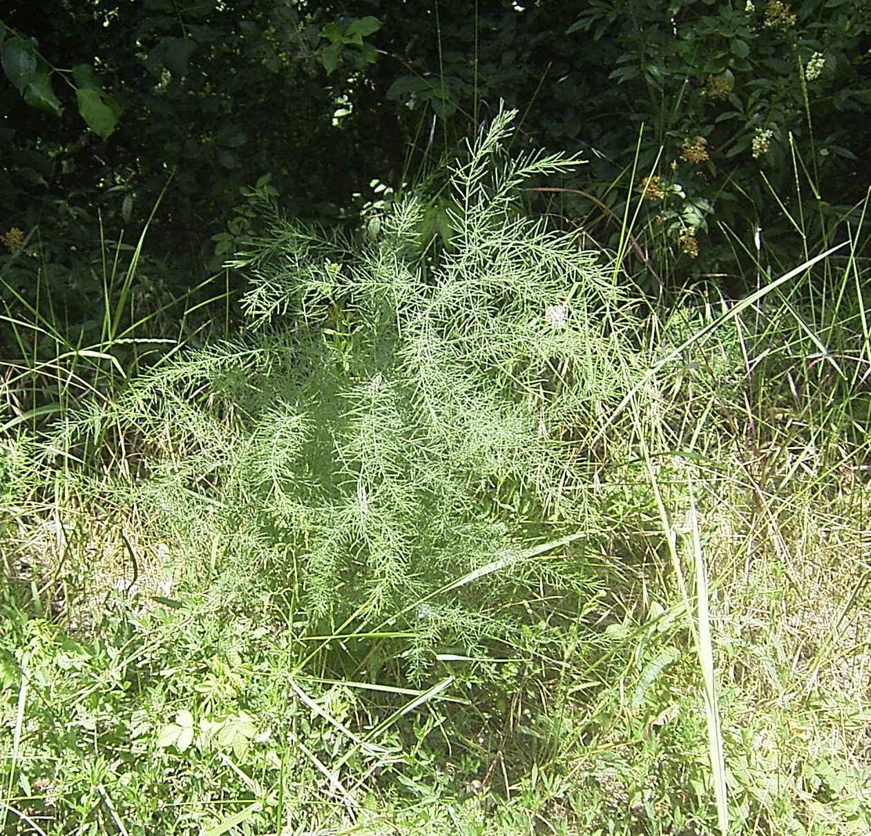 Asparagus officinalis in the wild in Austria, close to Neusiedler See, 17th June 2006